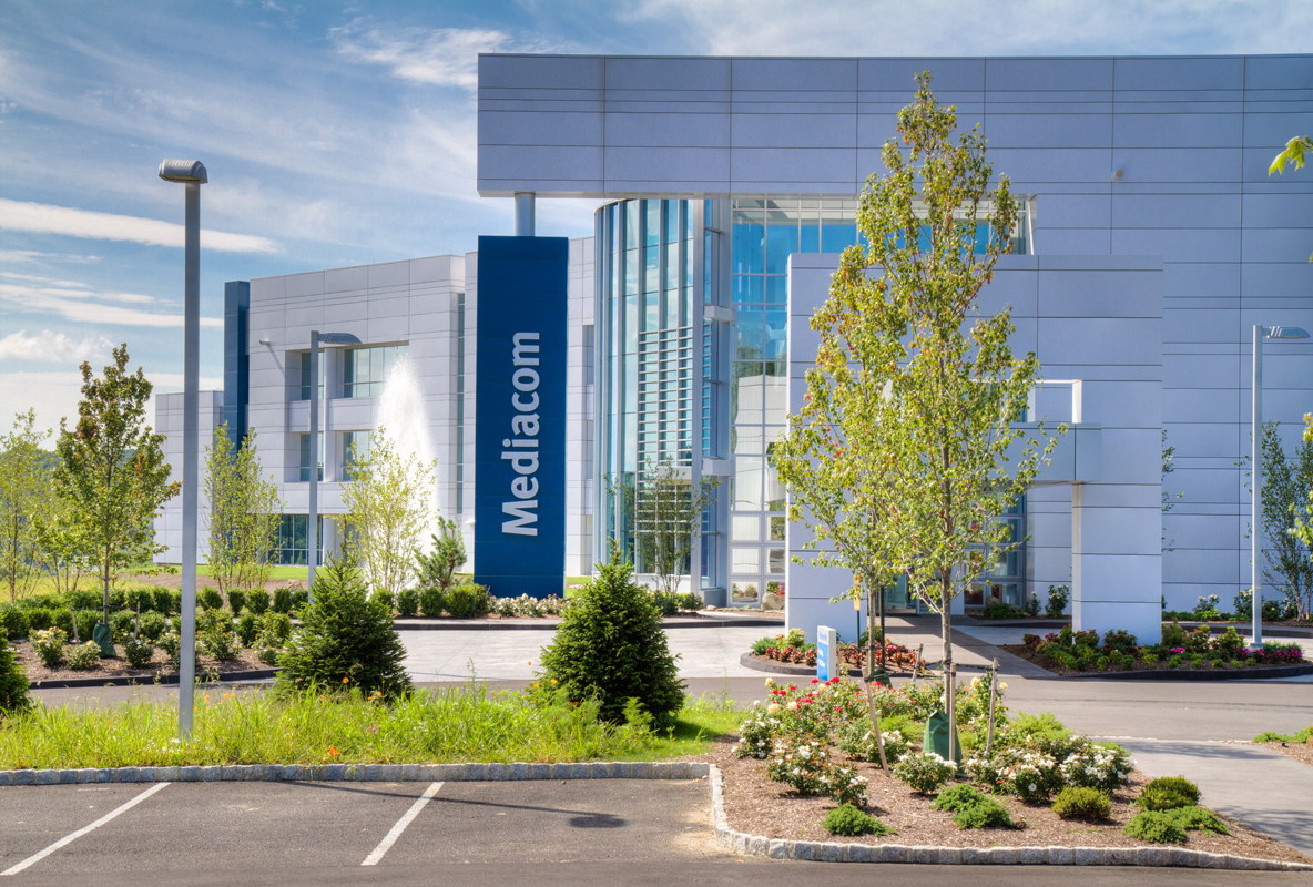 Mediacom Communications Corporation headquarter